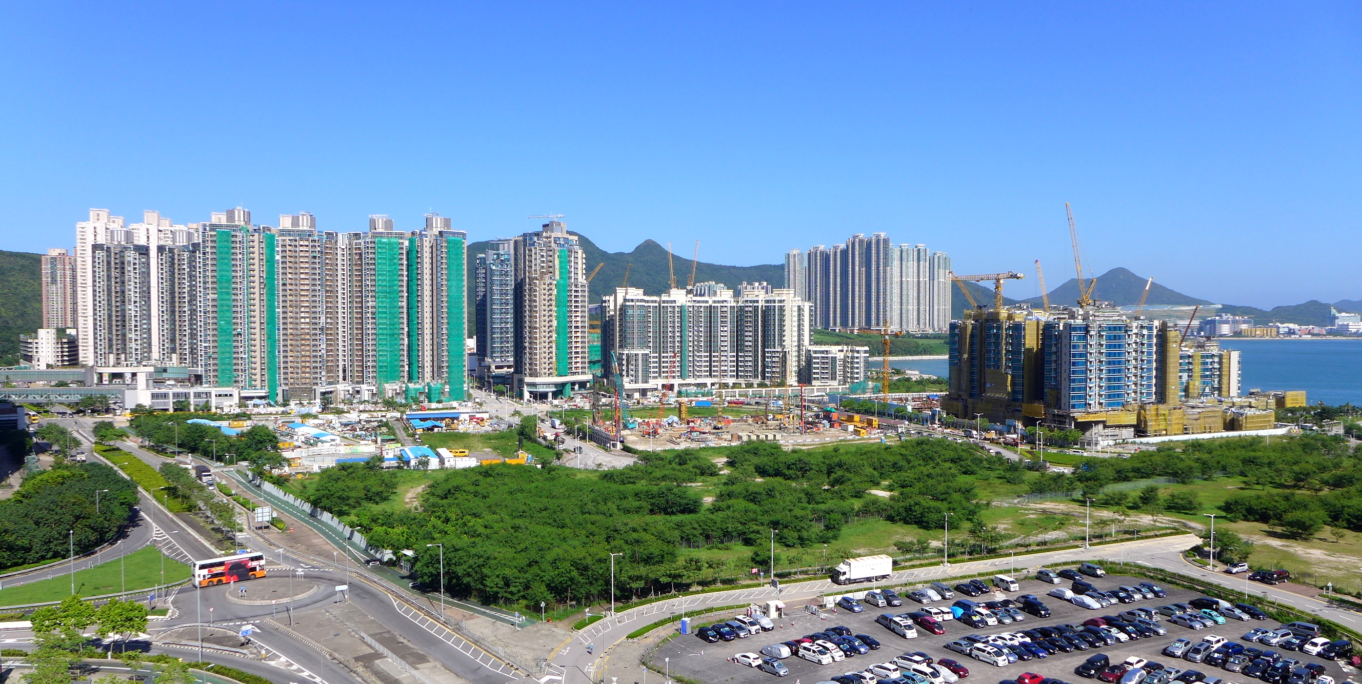 Tseung Kwan O South Overview